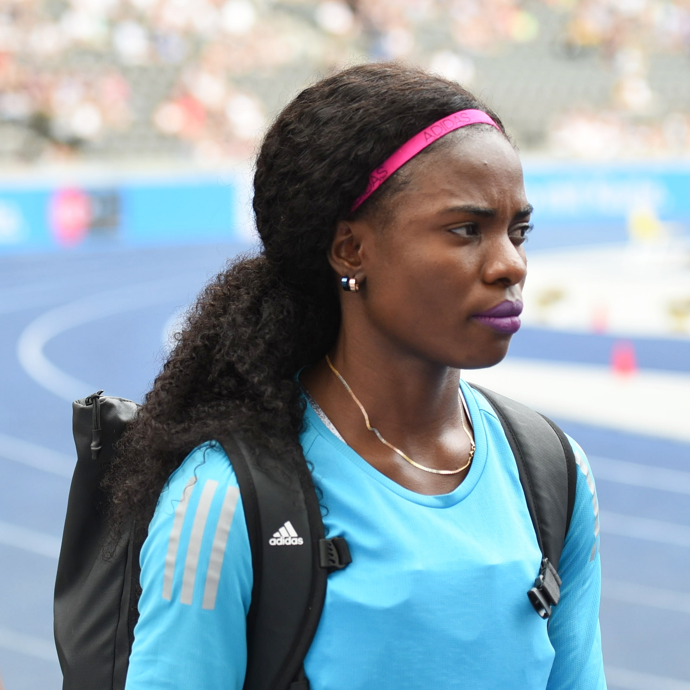 100 m hurdles at the ISTAF 2019 on 1 September 2019 in Berlin, Germany.